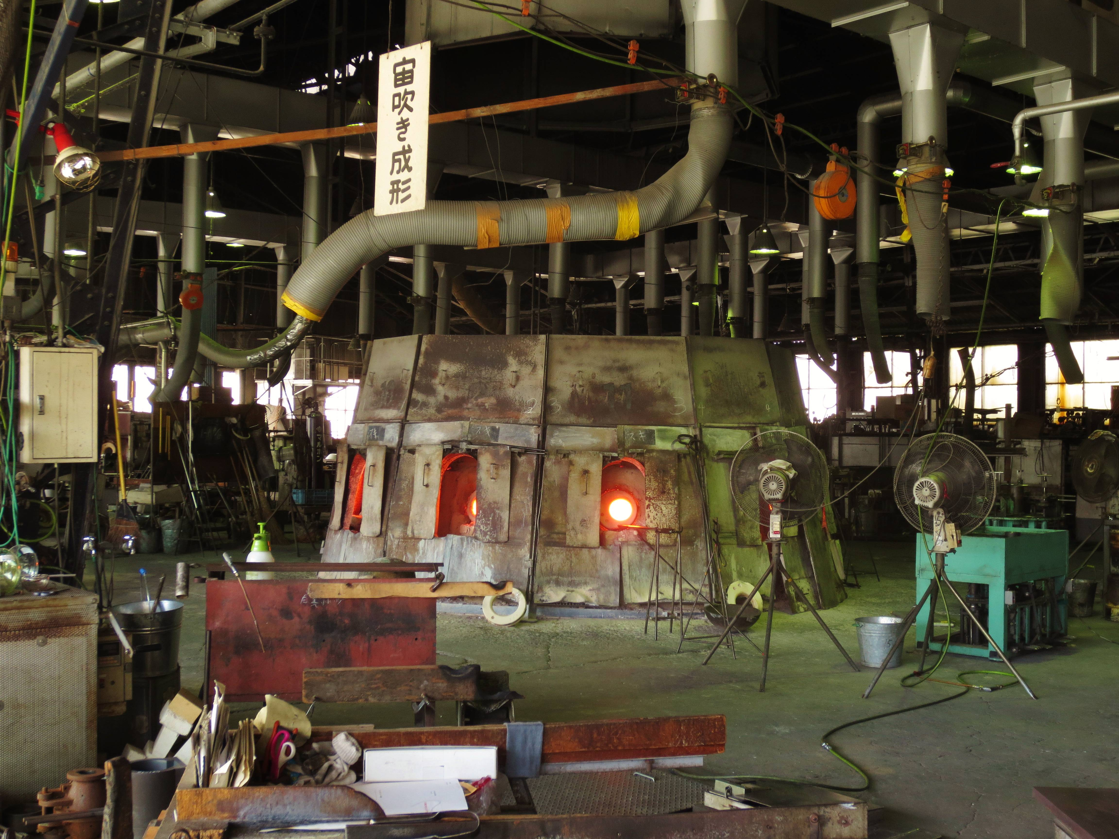 Tsukiyono Vidro Park factory.